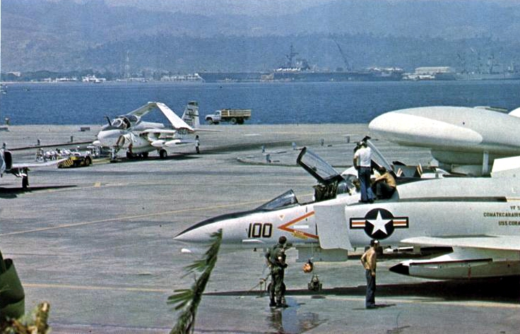 Aircraft of the U.S. Navy Attack Carrier Air Wing 15 (CVW-15) at Naval Air Station Alameda, California (USA), in 1974. Visible are: a McDonnell F-4N Phantom II of Fighter Squadron 51 (VF-51) "Screaming Eagles"; a Grumman E-1B Tracer of Reserve Carrier Airborne Early Warning Squadron 110 (RVAW-110) Det. 2 "Firebirds"; a Grumman KA-6D Intruder of Attack Squadron 95 (VA-95) "Green Lizards". CVW-15 was assigned to the aircraft carrier USS Coral Sea (CVA-43) for a deployment to Western Pacific from 5 December 1974 to 2 July 1975. The carrier is visible in the background.